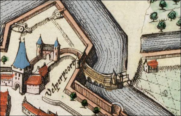 Piece of an old map with the Velperpoort, Arnhem